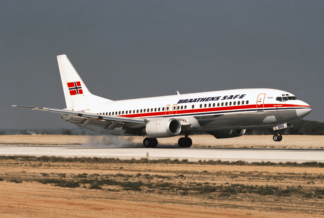 Braathens SAFE Boeing 737-405 LN-BRB at Faro Airport